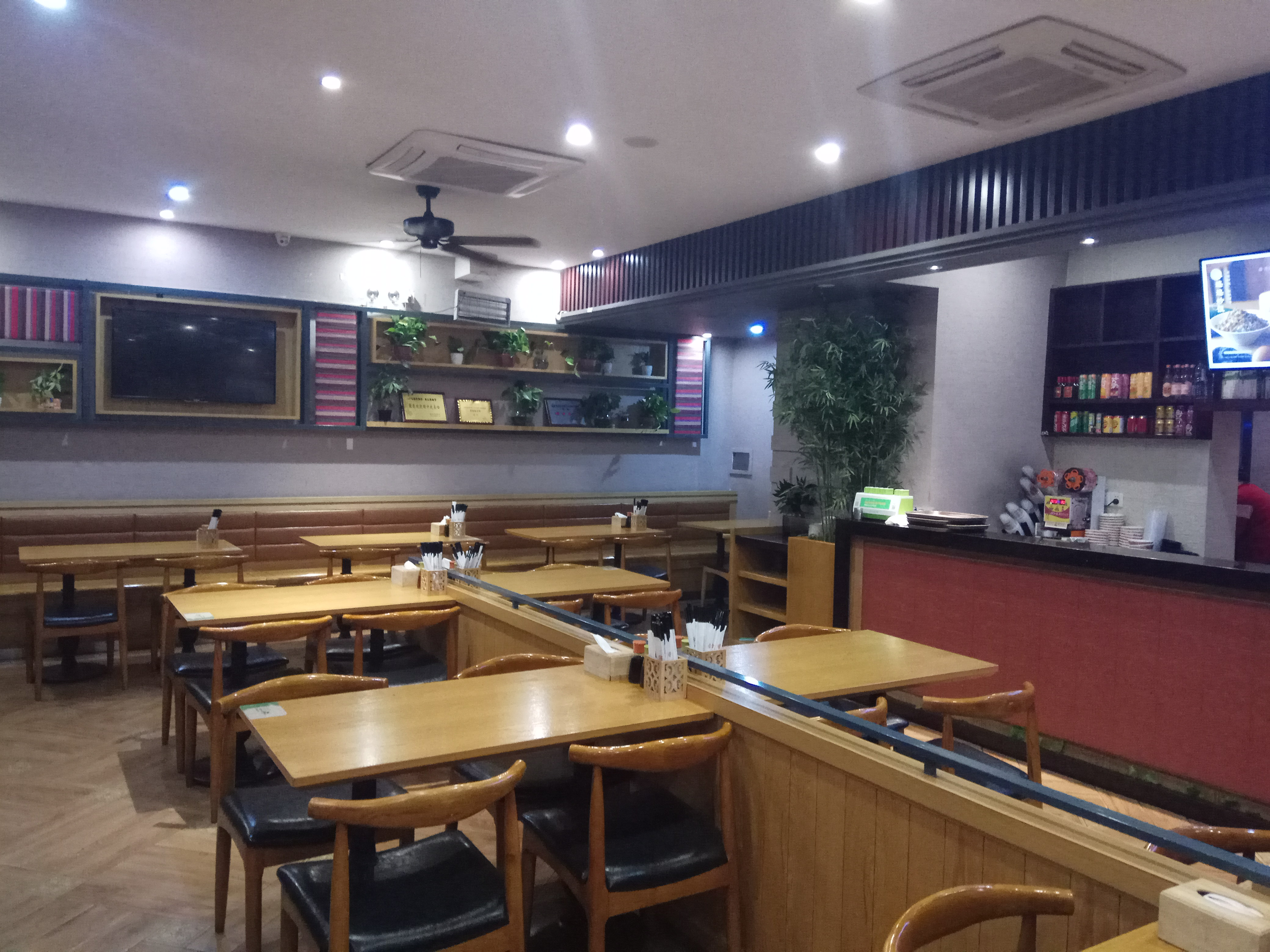 During the outbreak of COVID-19, there was no one in a restaurant in Yuhuan, Zhejiang, that had been the first to resume work (in line with government requirements) 中文（中国大陆）: 新冠肺炎疫情暴发期间，浙江玉环一家率先复工（符合政府要求）的餐厅内空无一人